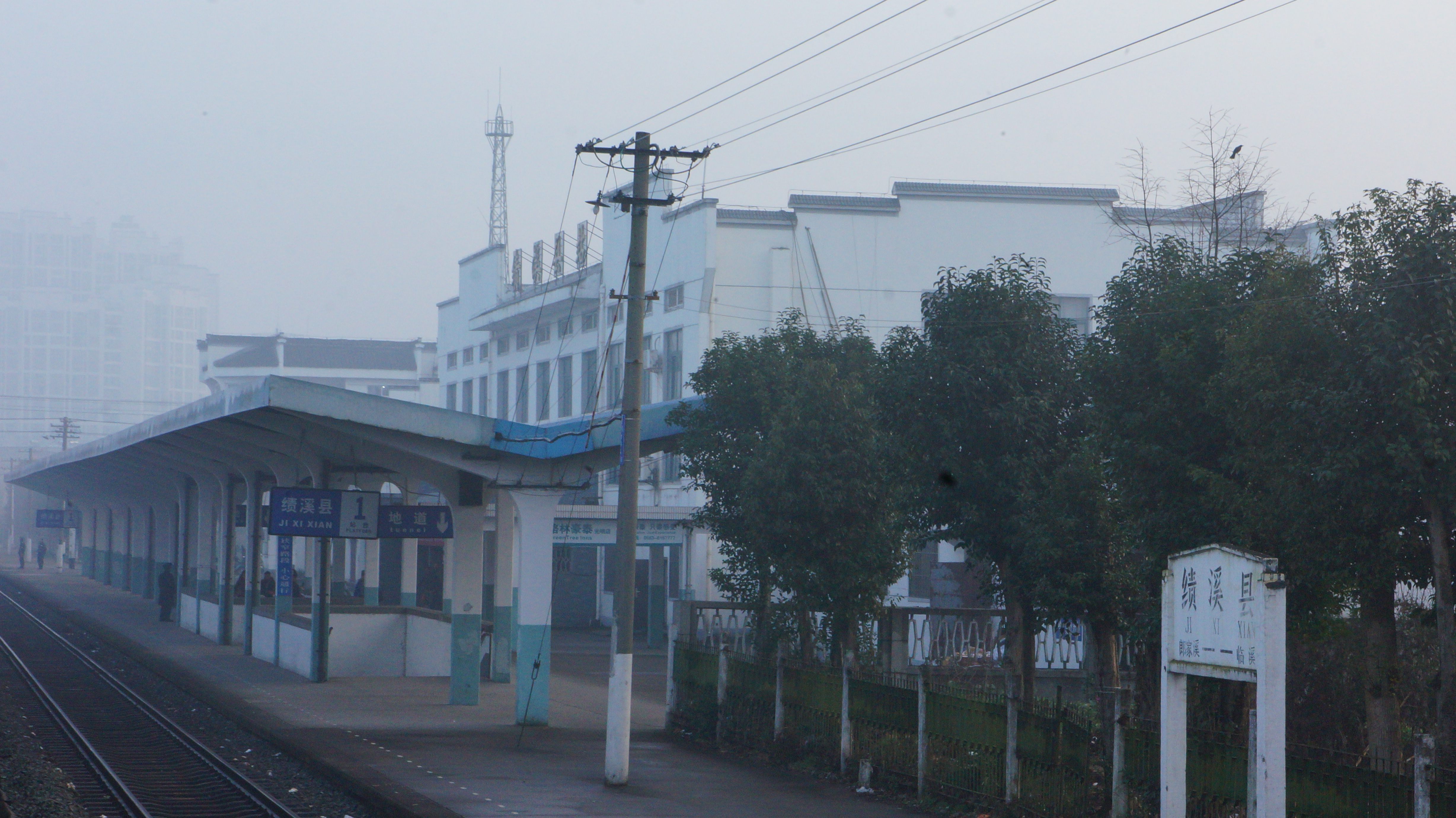 201601Platform 1 of Jixixian Railway Station